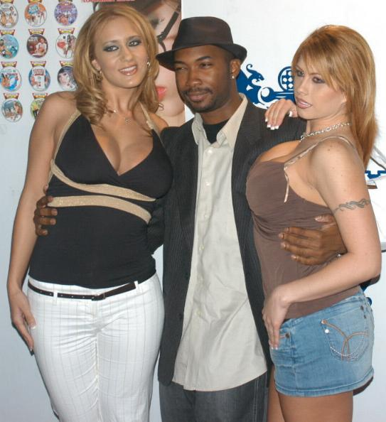 April 11 2007: Evil Angel Party.